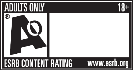 ESRB "Adults Only 18+" rating symbol, displayed on the packaging of computer and video games appropriate for audiences over the age of 18. Part of the ESRB Video Game Rating System.